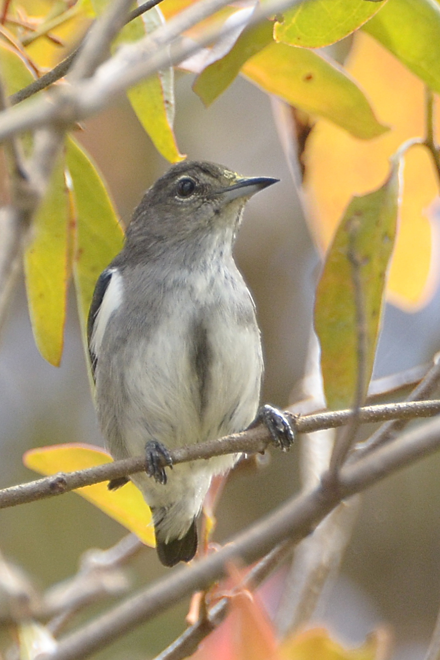 Female of crimson-crowned flowerpecker (Dicaeum nehrkorni) at Mount Mahawu Protected Forest, North SulawesiBahasa Indonesia: Betina cabai sulawesi (Dicaeum nehrkorni) di Hutan Lindung Gunung Mahawu, Sulawesi Utara